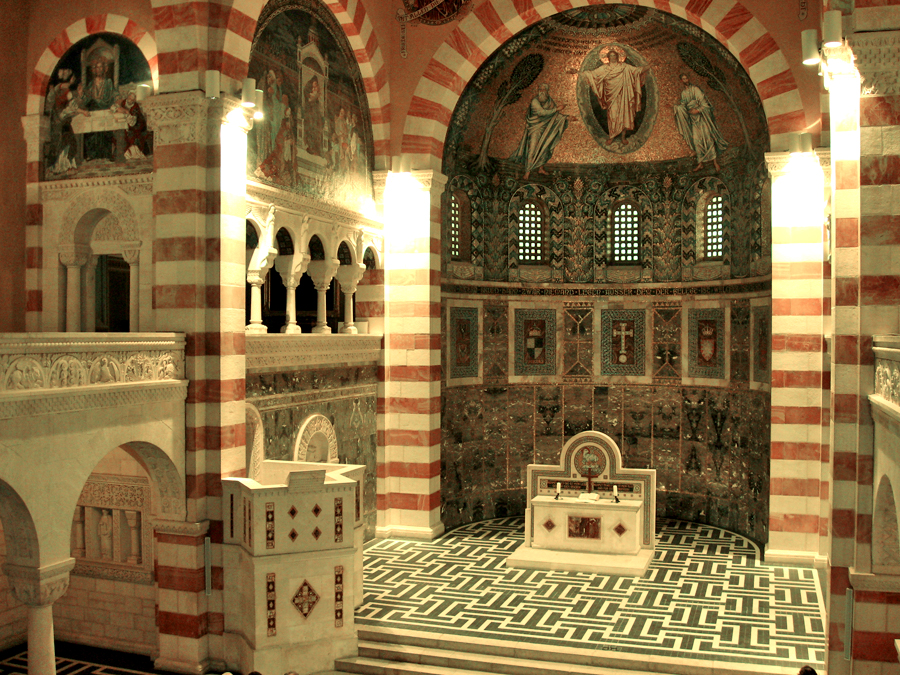 The Lutheran Ascension Church at Augusta Victoria Foundation, Jerusalem